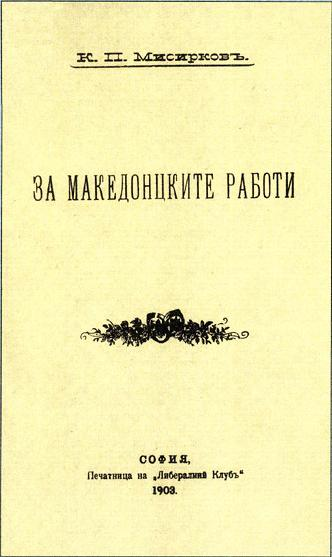 The front page of the book "Za makedonckite raboti, Sofia 1903" by Krste Petkov Misirkov.Sofia, 1903